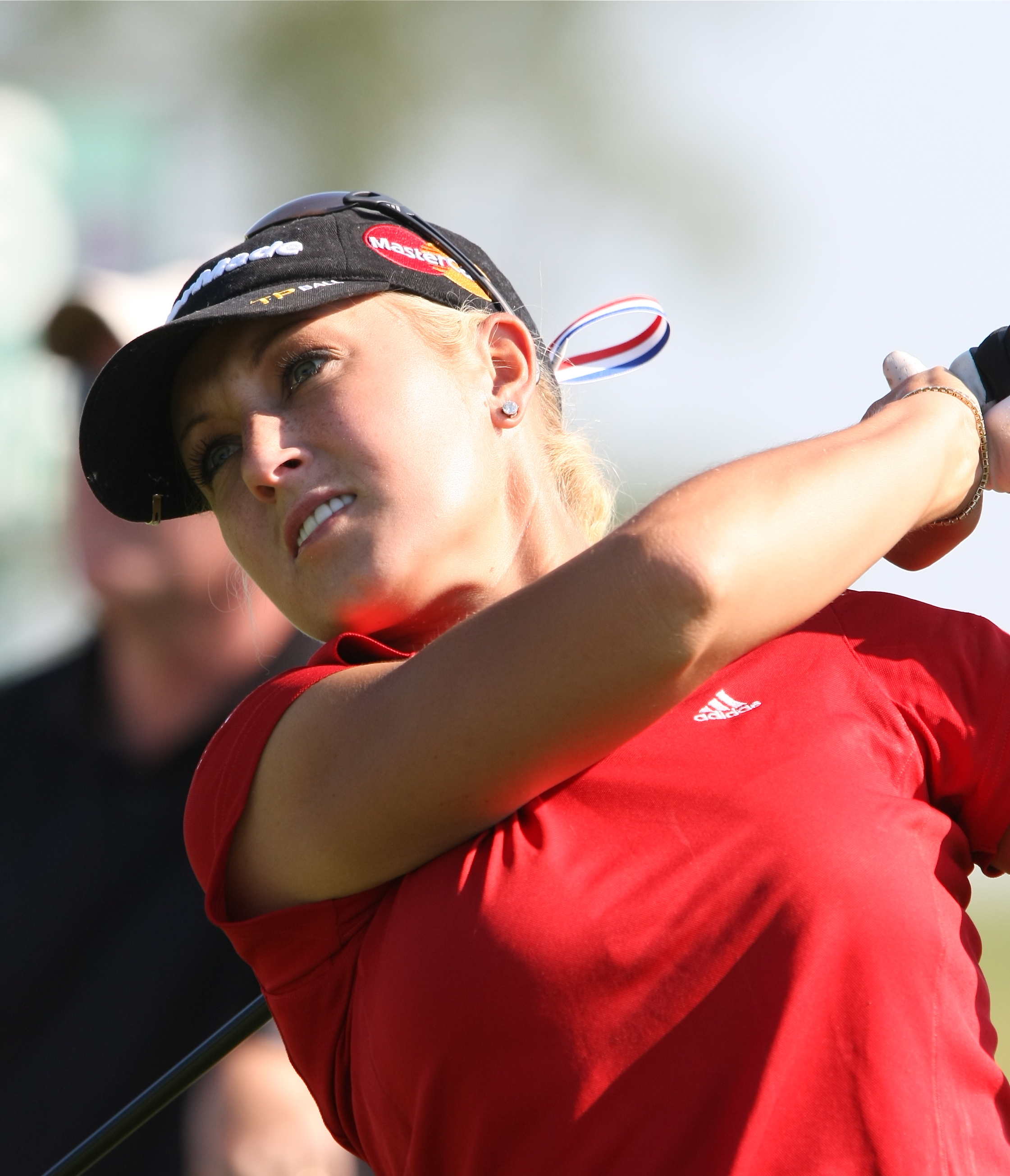 HAVRE DE GRACE, MD - JUNE 02: Natalie Gulbis (USA) during pro-am before 2008 LPGA Championship held at Bulle Rock Golf Course, on June 2, 2008 in Havre de Grace, Maryland. (Photo by Keith Allison)